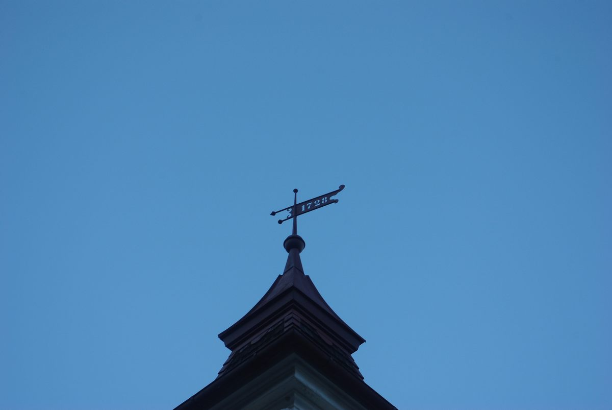 Kirchberg-Schlössl, Thumseestr. 11, 83435 Bad Reichenhall This is a photograph of an architectural monument.